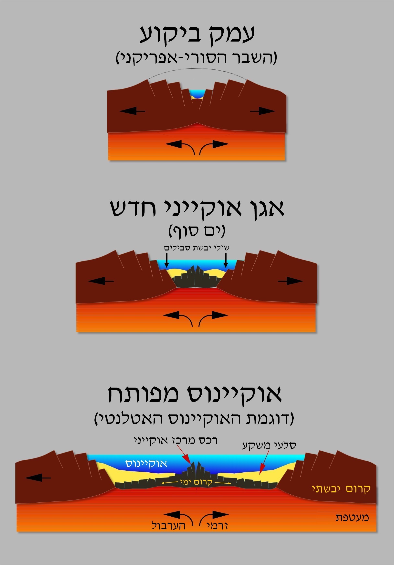 The genesis of an ocean: in plate tectonics, the formation of an ocean starts with a rifting process in the crust as a result of mantle convection. A valley forms like the African Rift Valley beeing a recent example. In the next stage, the valley has opened up until sea water enters; a good example is the Red Sea. The spreading process continues, the ocean becomes wider and forms a mature ocean like the Atlantic. הולדת אוקיינוס